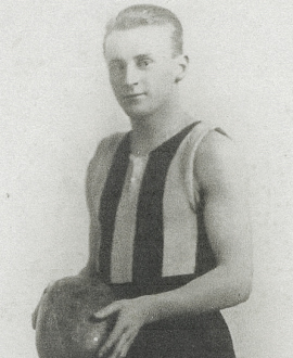 Photograph of Reg Baker from 1922-1928